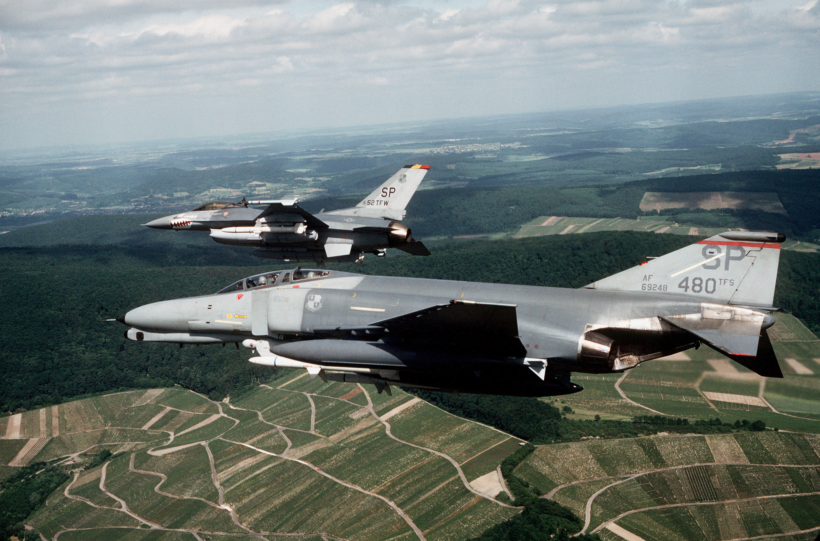 A U.S. Air Force McDonnell Douglas F-4G Phantom II Wild Weasel aircraft (s/n 69-0248) from the 480th Tactical Fighter Squadron, foreground, and a General Dynamics F-16C Fighting Falcon aircraft of the 52nd Tactical Fighter Wing commander fly over the German countryside on 1 June 1989. The F-16C is carrying an AIM-9L/M Sidewinder missiles on its outer wing pylons and both aircraft are armed with AGM-88 HARM missiles. The F-4G also carries AIM-7 Sparrow missiles.